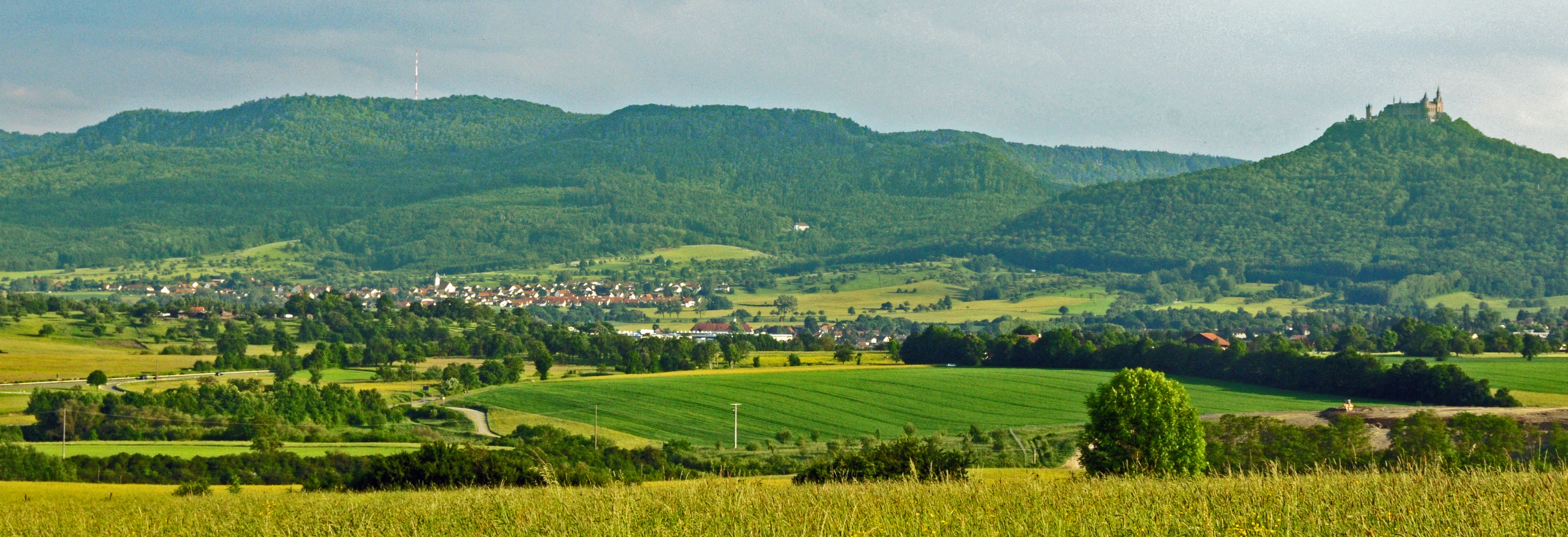 Boll, Raichberg and Hohenzollern castle from Sickingen.